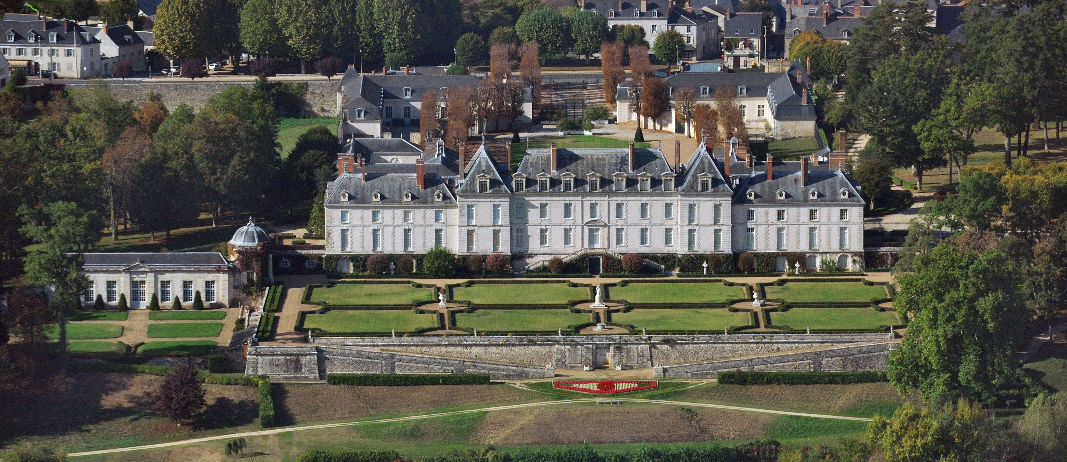 Aerial view of the castle of Menars (Loir-et-Cher department, France). Nikon D60 f=120mm f/8 at 1/1000s ISO 400. Processed using Nikon ViewNX 1.3.0 and GIMP 2.6.6.